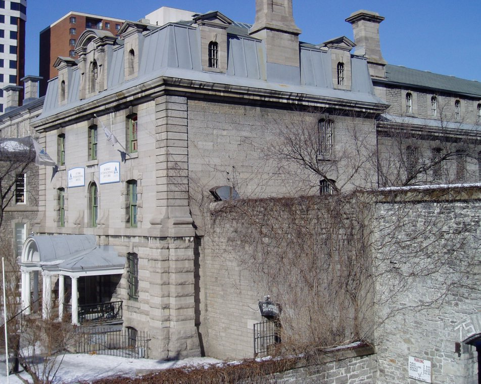 The Nicholas Street Gaol (now the Ottawa Jail Hostel) in Ottawa, Ontario, Canada.